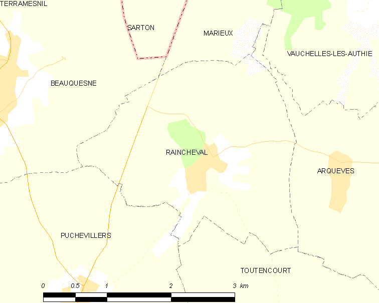 Map of French municipality Raincheval